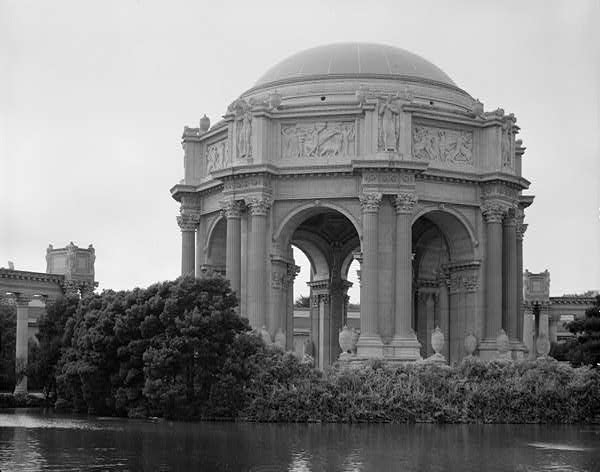 Palace of Fine Arts in San Francisco — in 1956, before restoration/rebuilding. Architect: Bernard Maybeck. Image: HABS−Historic American Buildings Survey in San Francisco.